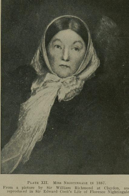 Illustration of Florence Nightingale